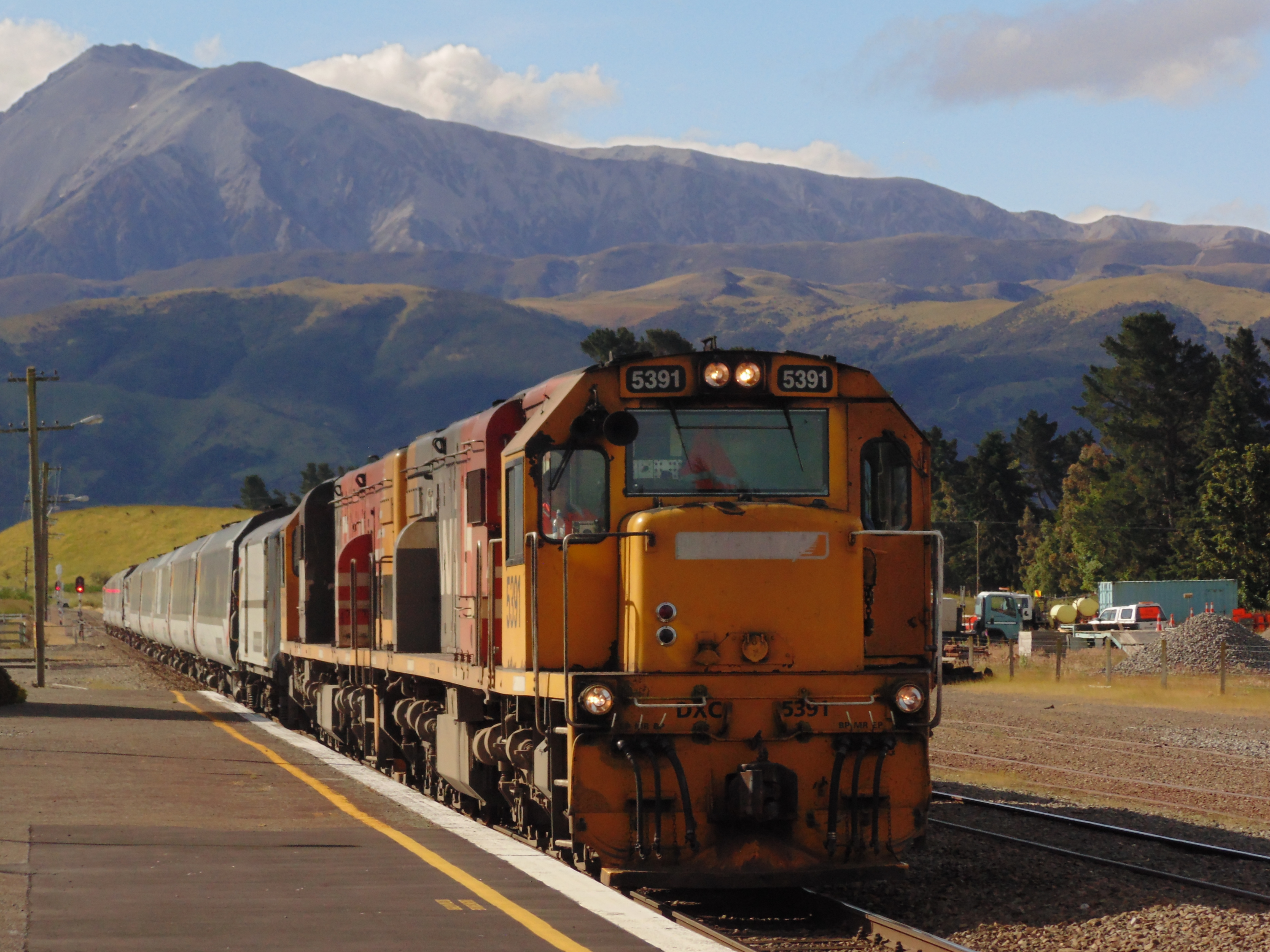 TrainboyMBH